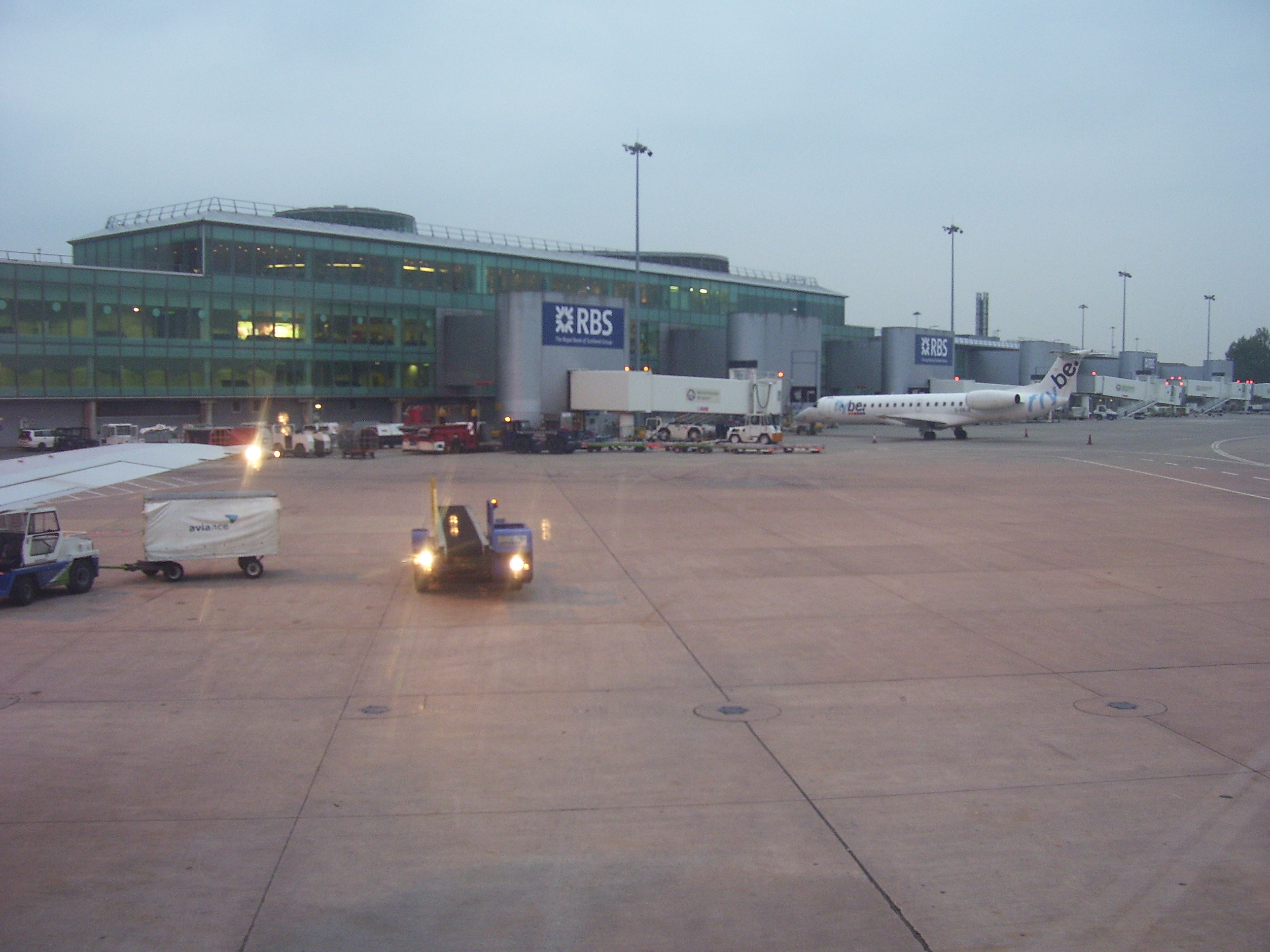 Aircraft stands at Manchester Airport's Terminal 3, showing an a Flybe Embraer aircraft